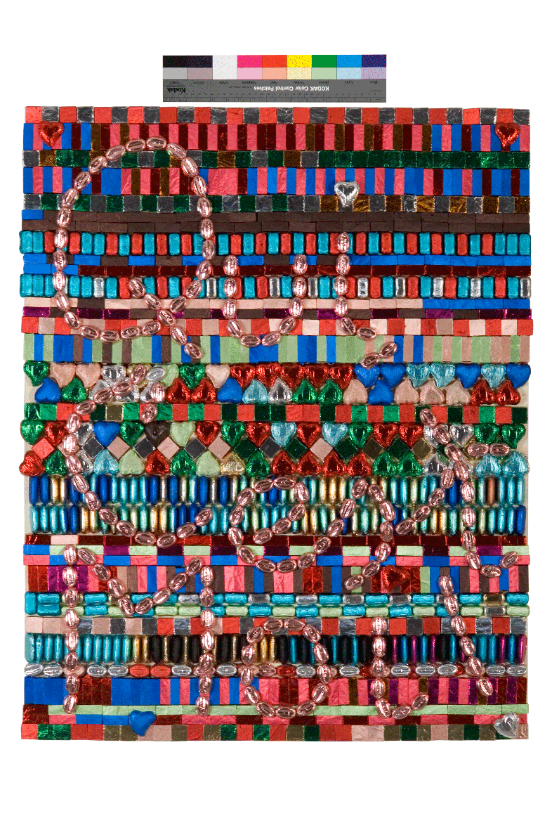 a work on which i hold the copyrights